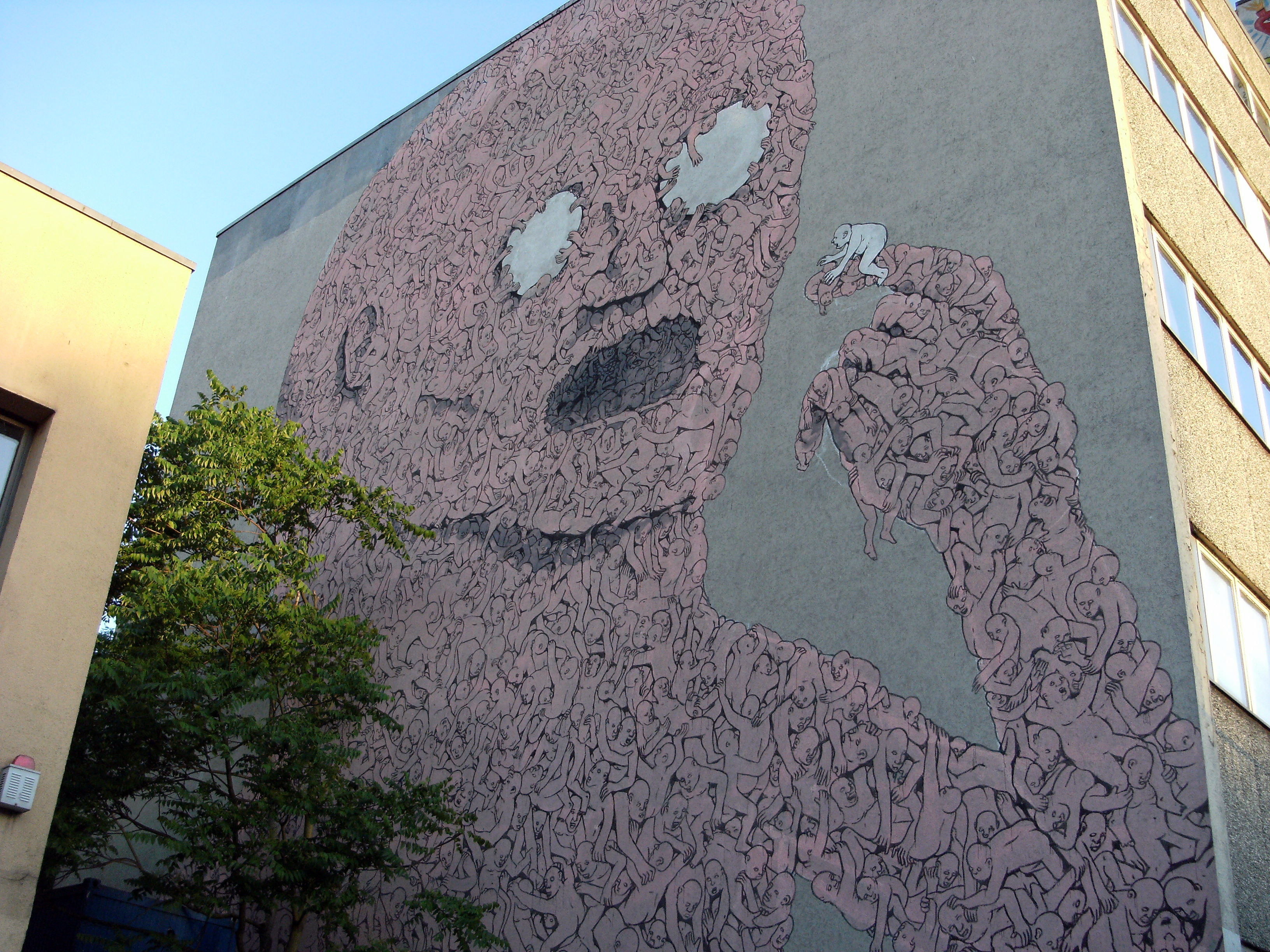 Berlin in june 2008.